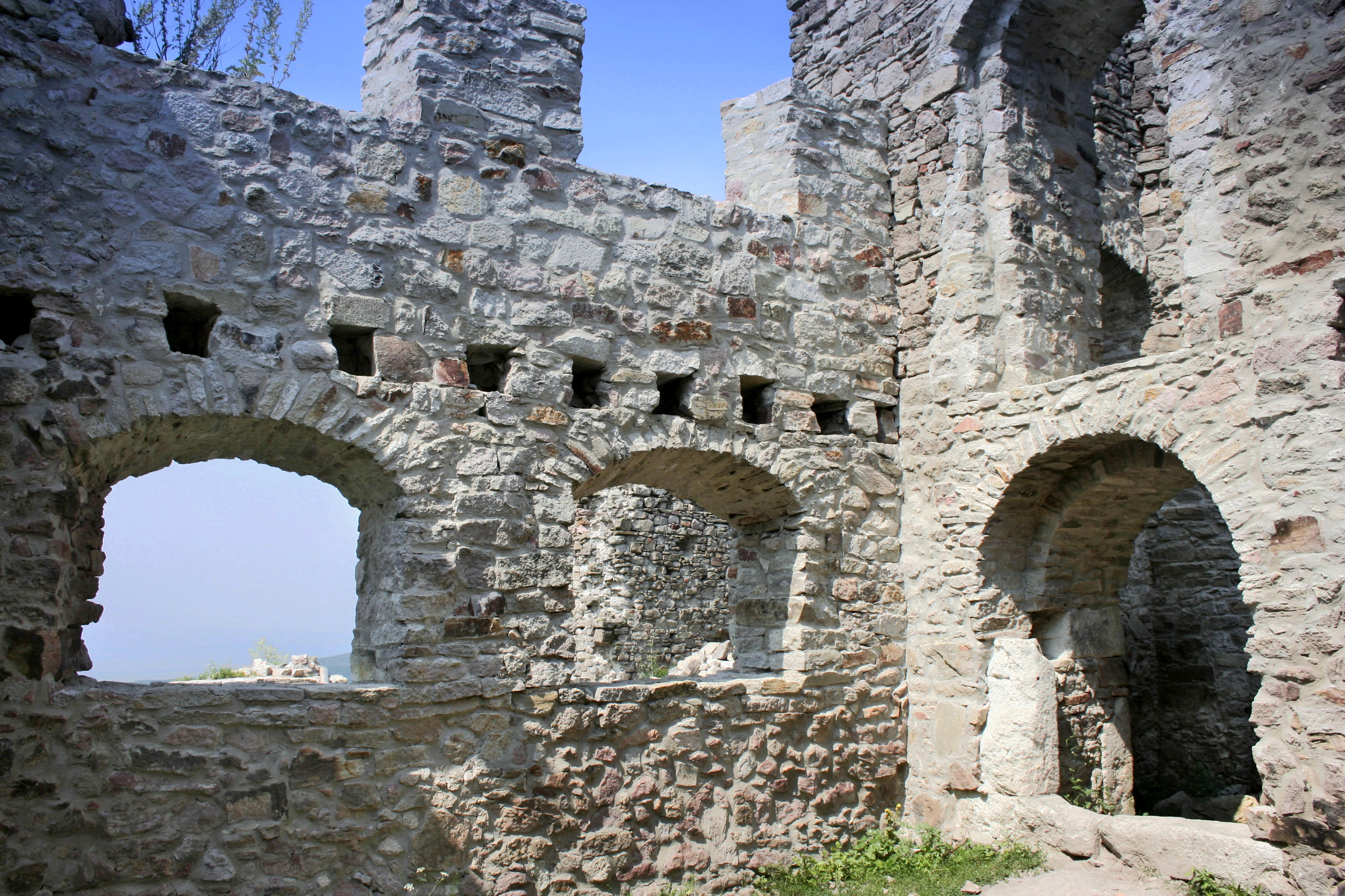 Regéc Castle - central part of the castle - palace walls Room